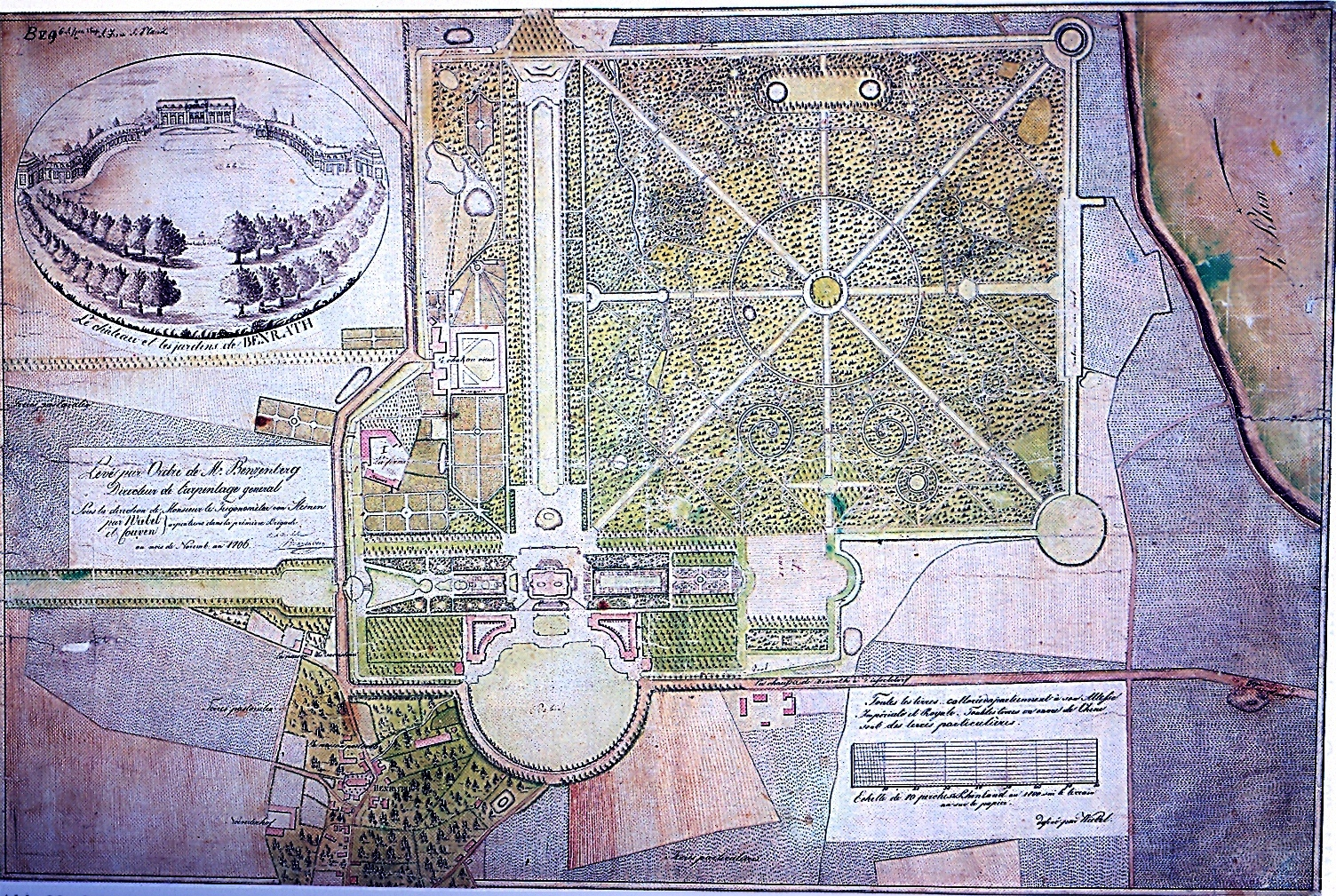 t